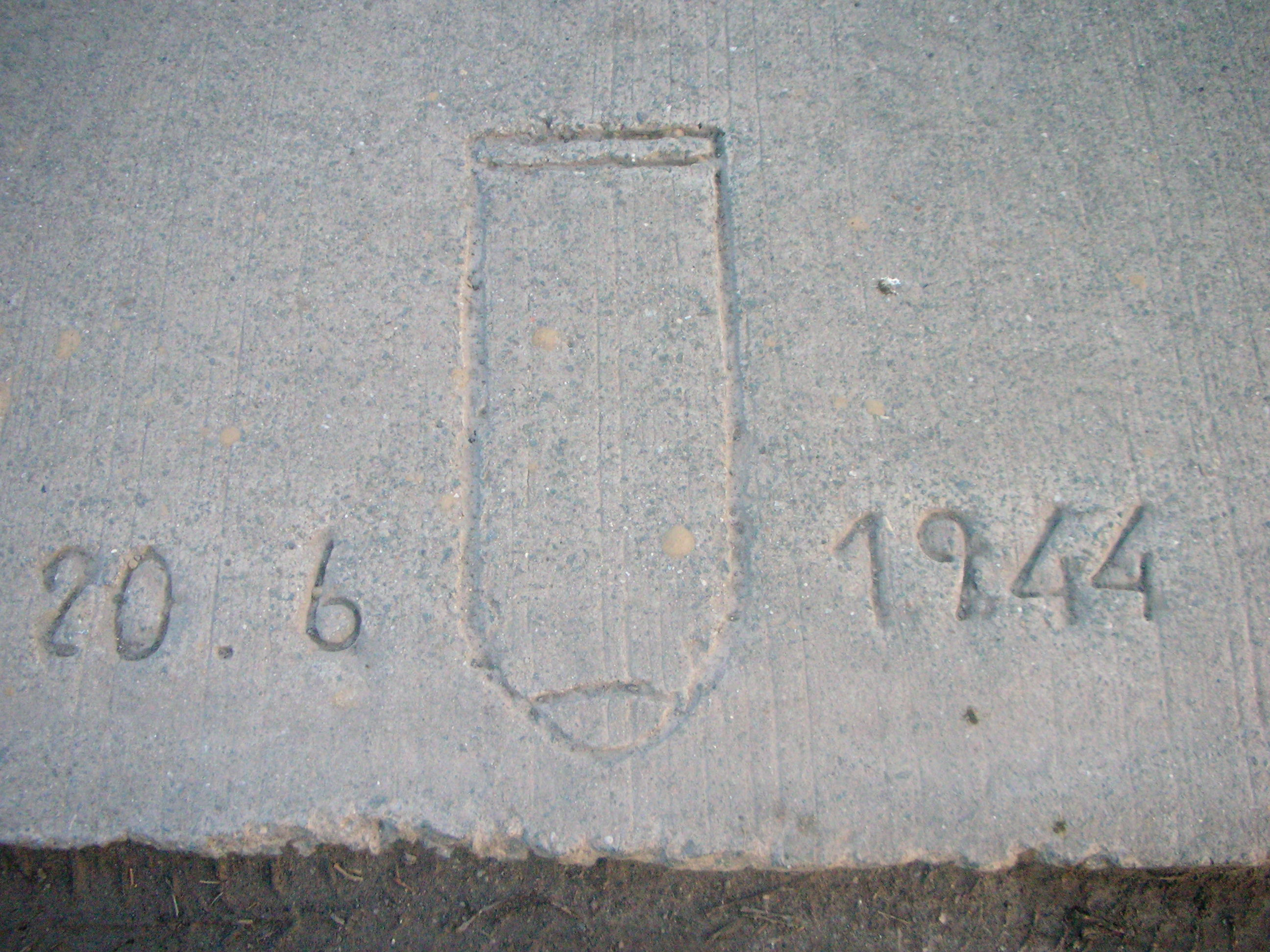 Mark in the road in front of the Bomkapelle chapel in Koolskamp. Koolskamp, Ardooie, West Flanders, Belgium